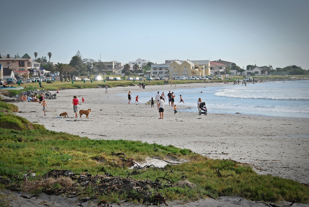 Melkbosstrand (Afrikaans for "Milk wood beach") is a coastal village and beach located on the South West Coast of South Africa